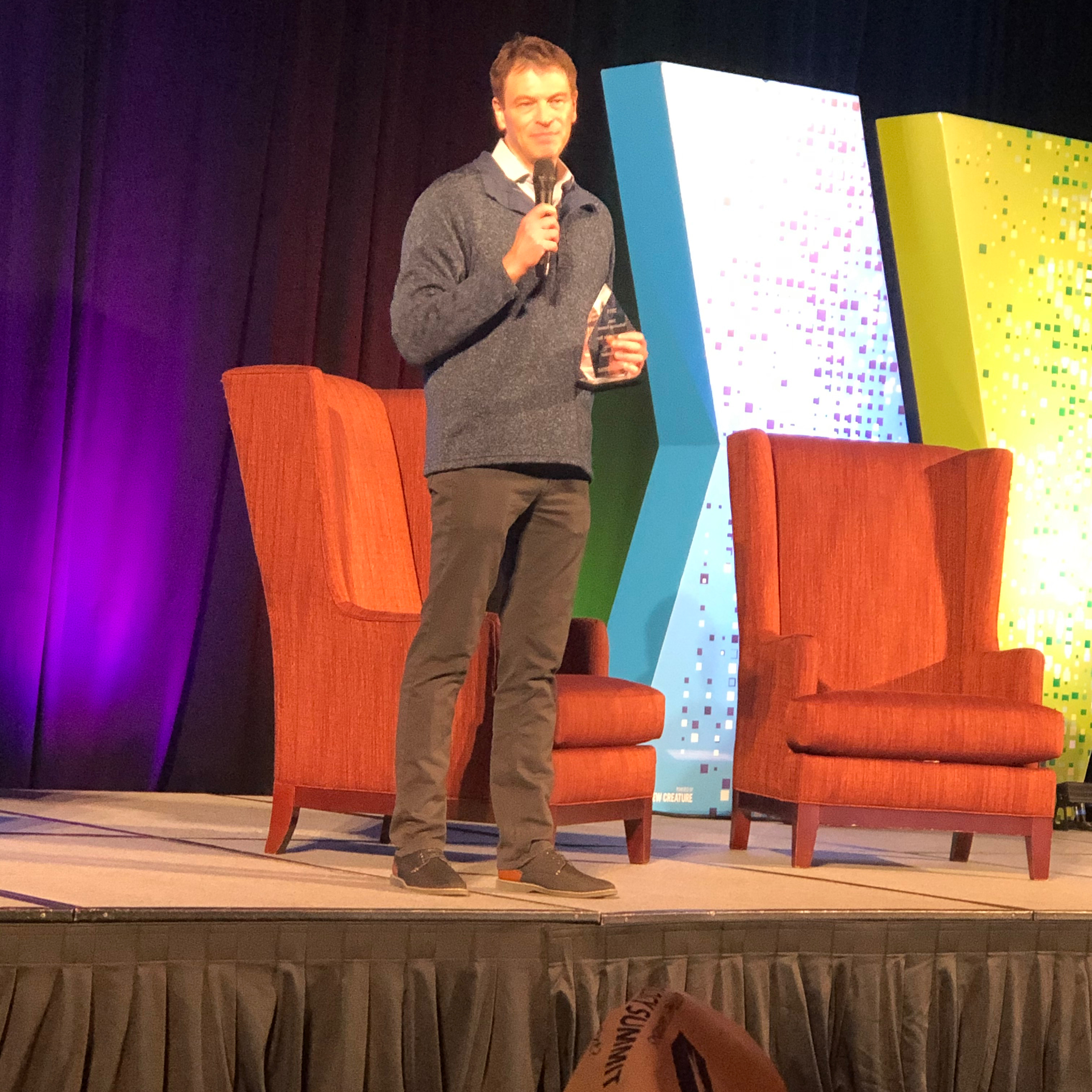 exchange conference